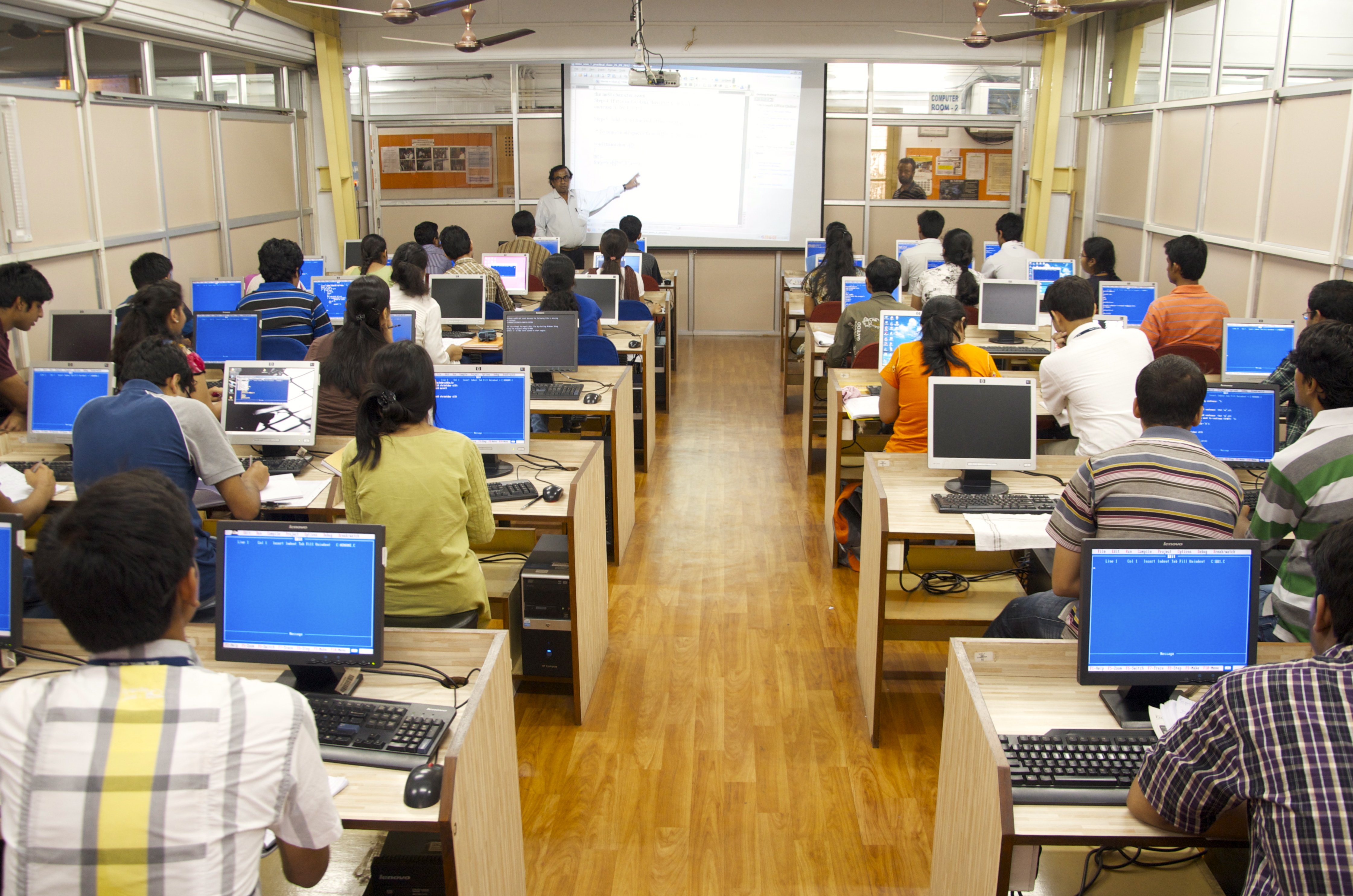 Computer lab at St.Xaviers College' Kolkata